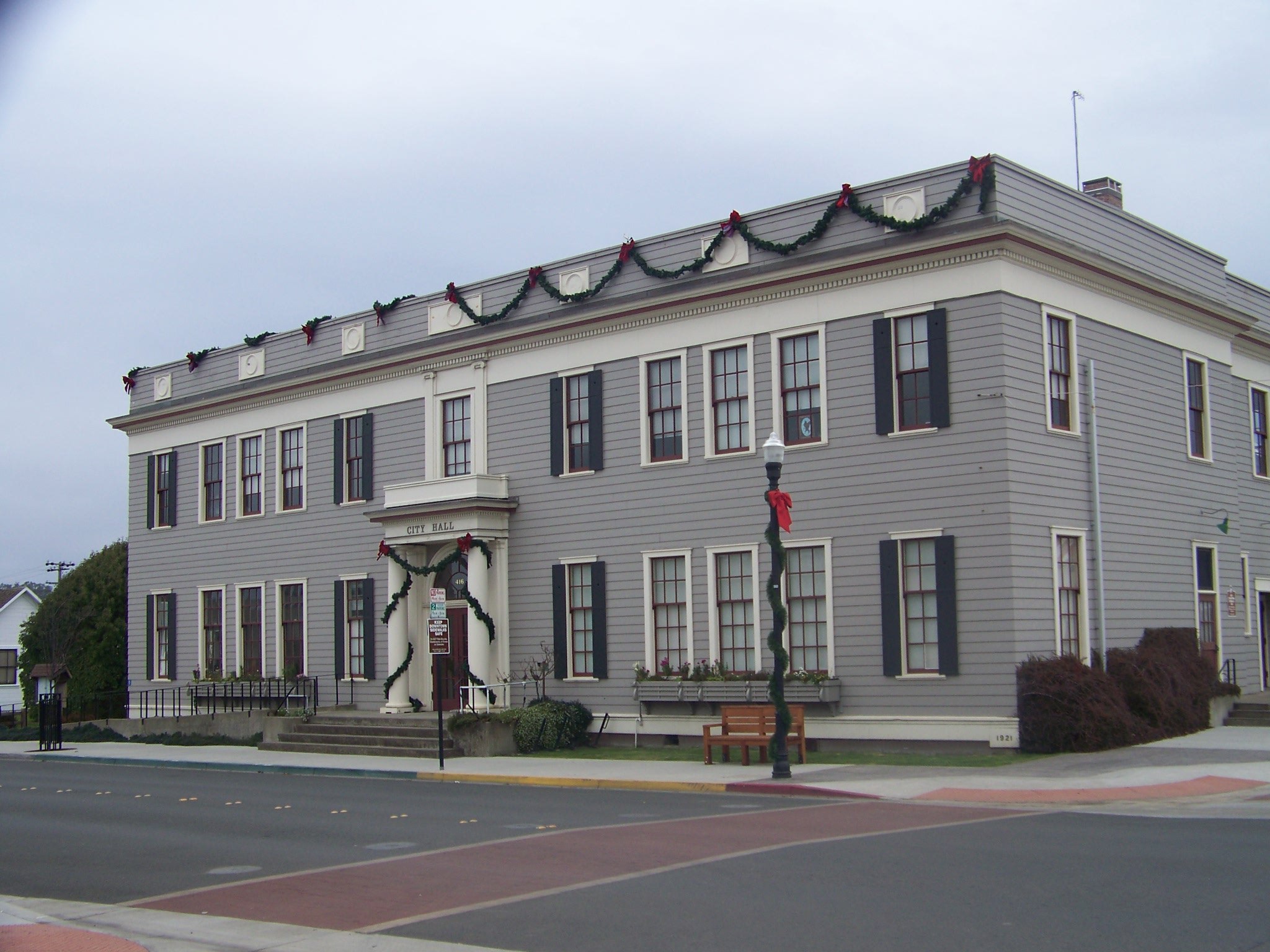 The city hall of Fort Bragg - Mendocino County, California.